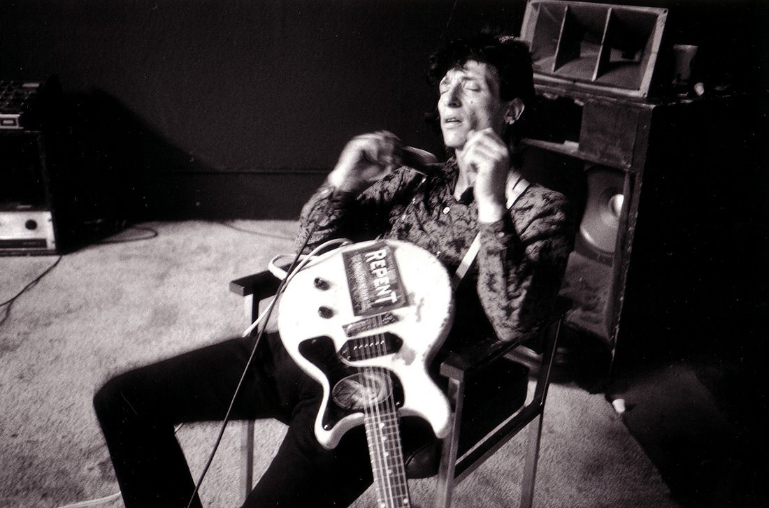 Photograph of musician Johnny Thunders. Taken at one of Johnny's rehearsals in the mid 1980's, in Los Angeles, CA.